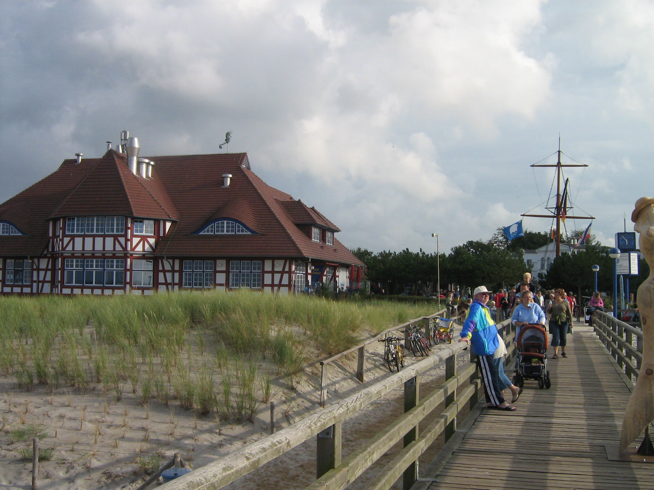 The kurhaus on peninsula Zingst